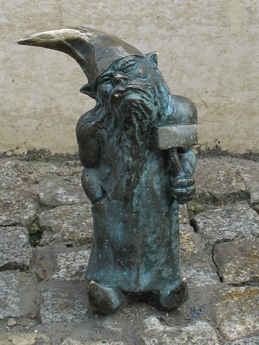 Smithie (Kowal) dwarf from Szewska.